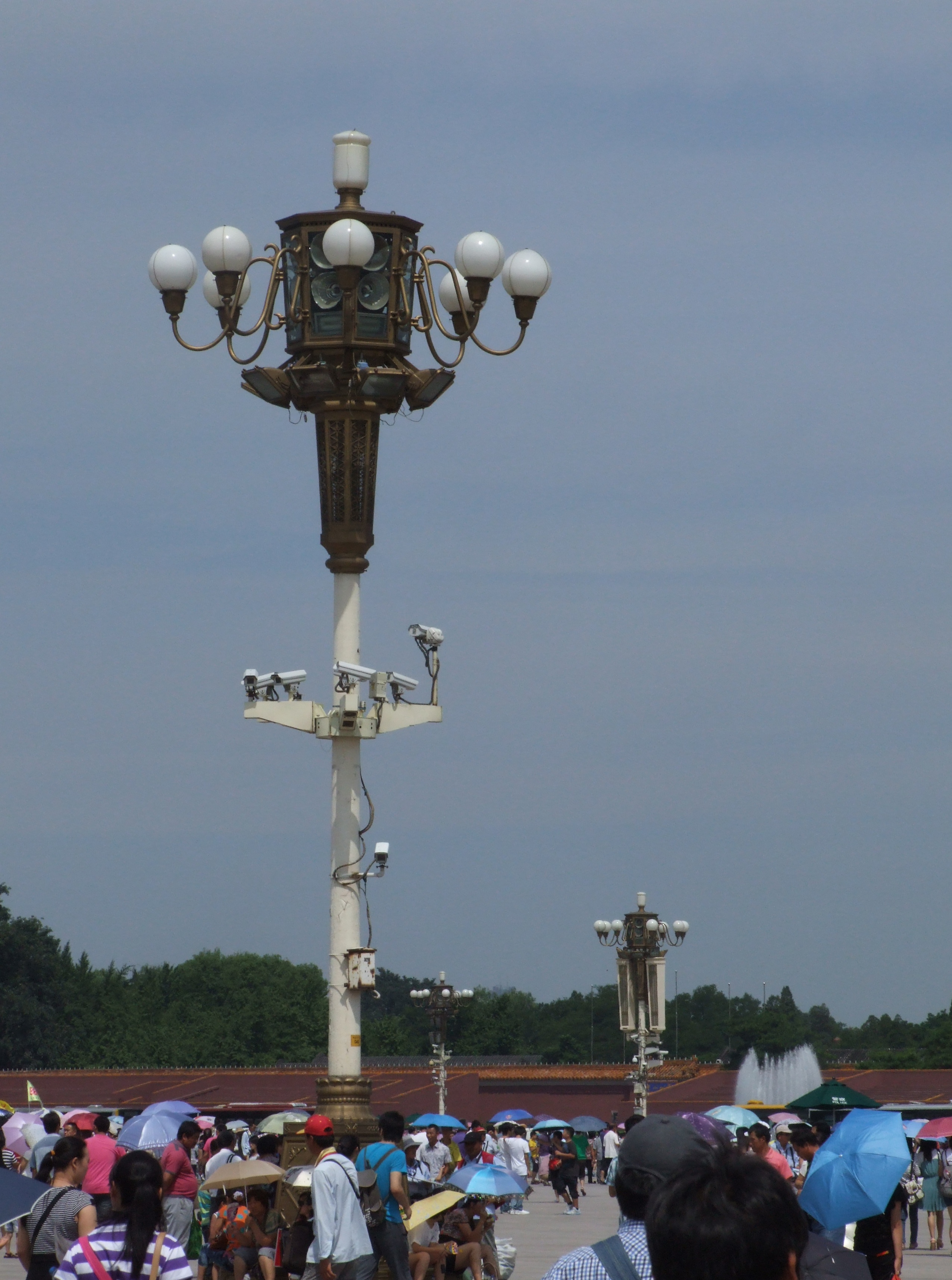 Tiananmen Square